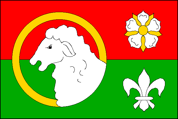 Municipal flag of Těškovice village, Opava District, Czech Republic.